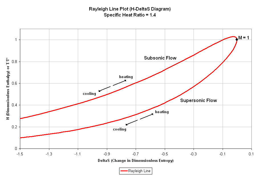 This is a chart of the Rayleigh Line for the Rayleigh flow article.